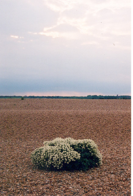 Shingle Street, nr. Hollesley Bay, Suffolk. Evening light at the southern extremity of the Suffolk Heritage Coastline, where the view inland is taken with the sea behind the camera. The Coastguard cottages are to the left, just out of the photograph.